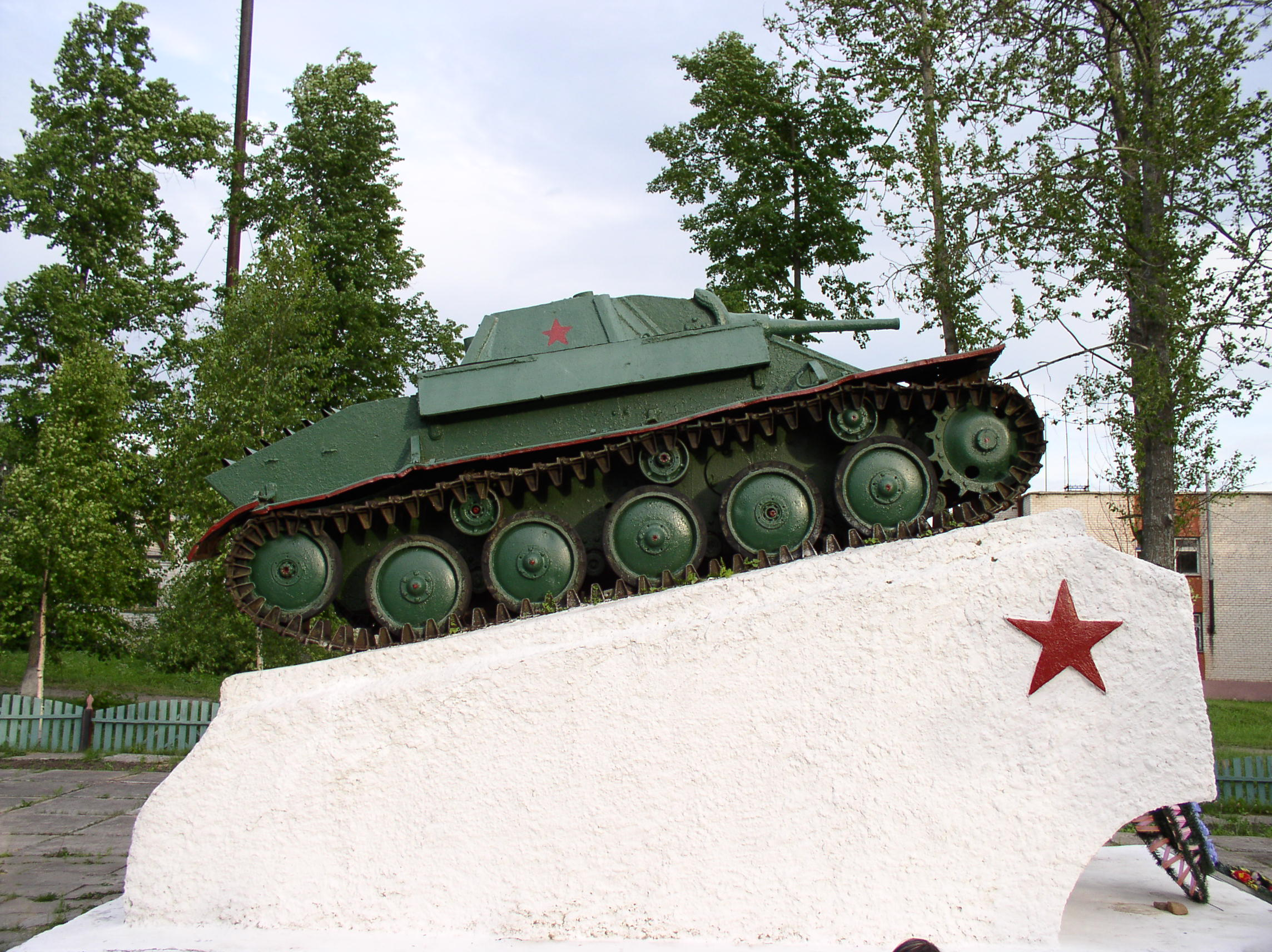 Tank T-70 – part of monument to lost in Great Patriotic War. Yezyaryshcha, Belarus.